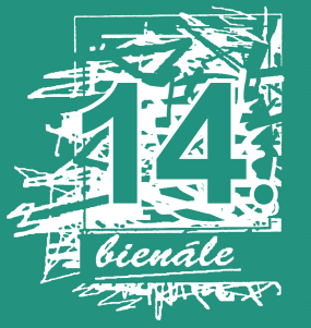 Logo of the 14th Biennale of Slovak artists in Serbia. Srpski (latinica): Logo 14. Bijenala slovačkih likovnih umetnika u Srbiji